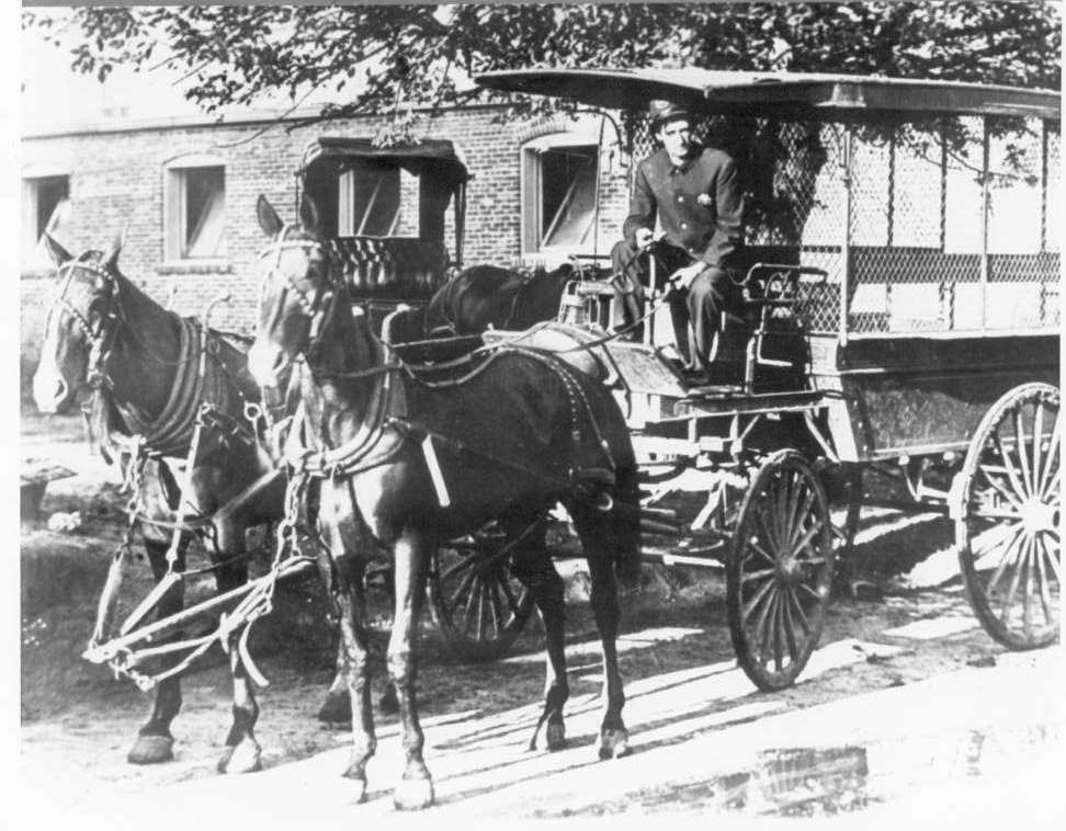 An OCPD Paddy Waggon